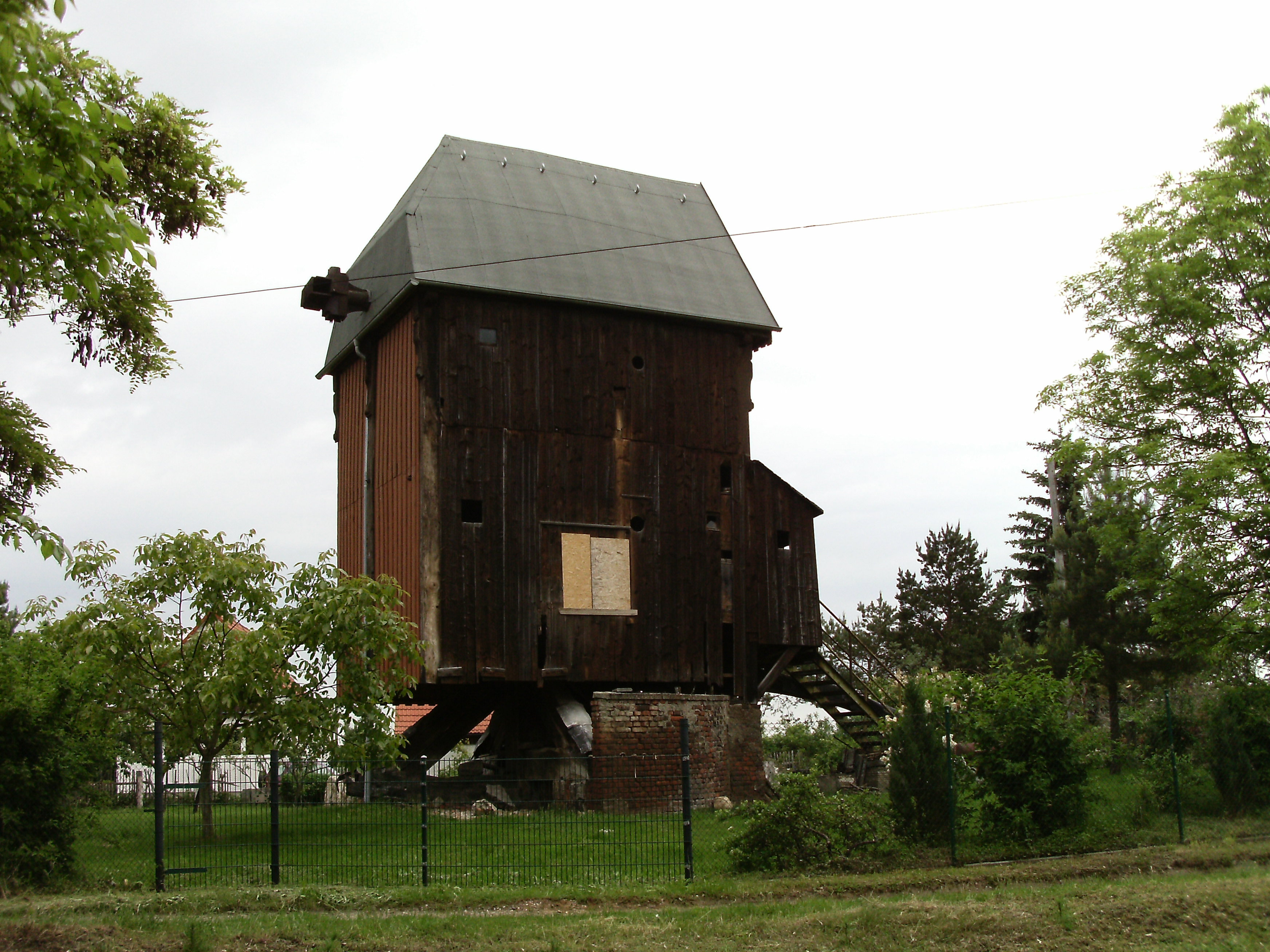 Gniebendorf post mill in Grosskorbetha (Weissenfels, district of Burgenlankreis, Saxony-Anhalt)